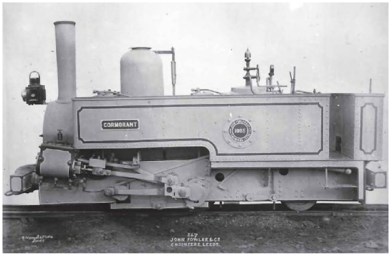 John Fowler and Co steam locomotive 'Cormorant' (Works No 5058 of 1885) using Greig and Beadon patent